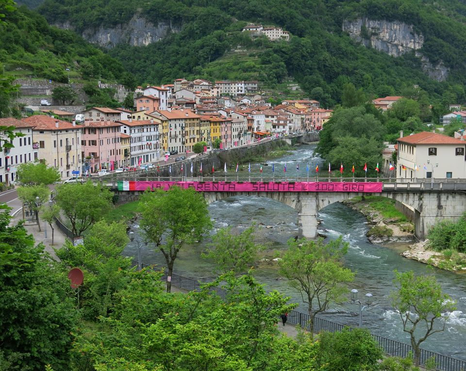 Brenta riverside & the Riviera Garibaldi in Valstagna